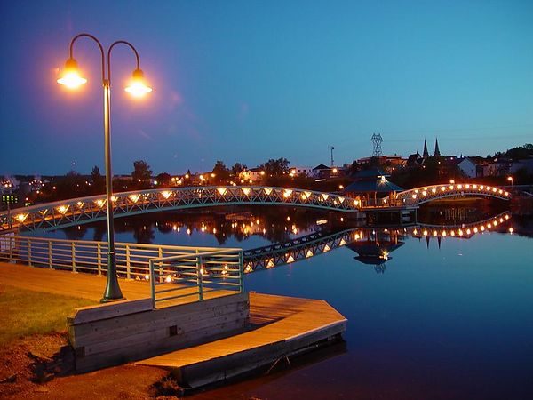 Edmundston at night